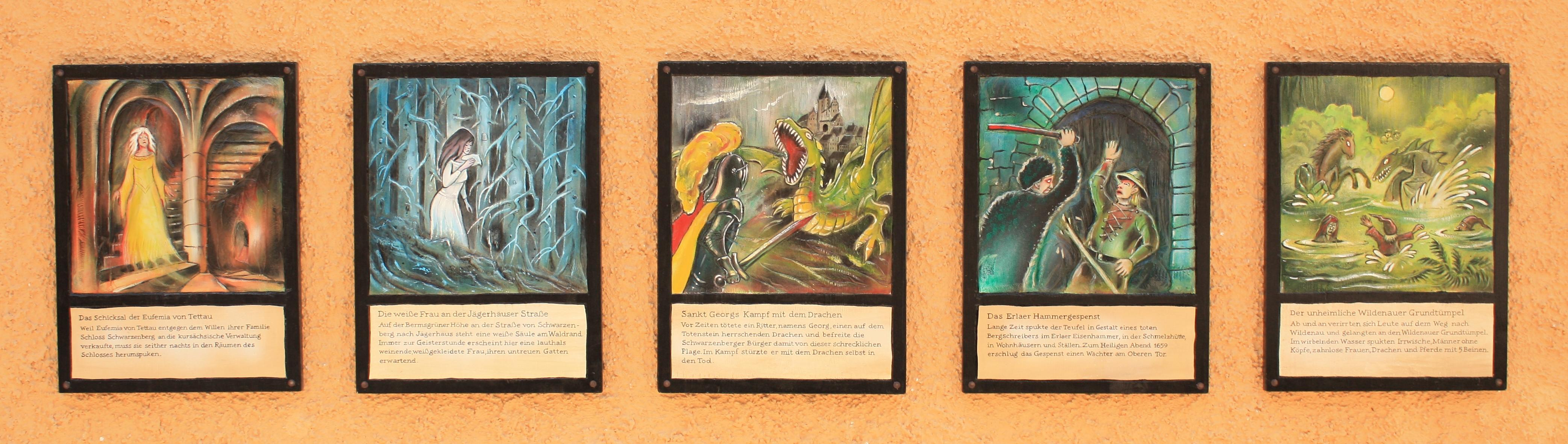 Legends of the City of Schwarzenberg